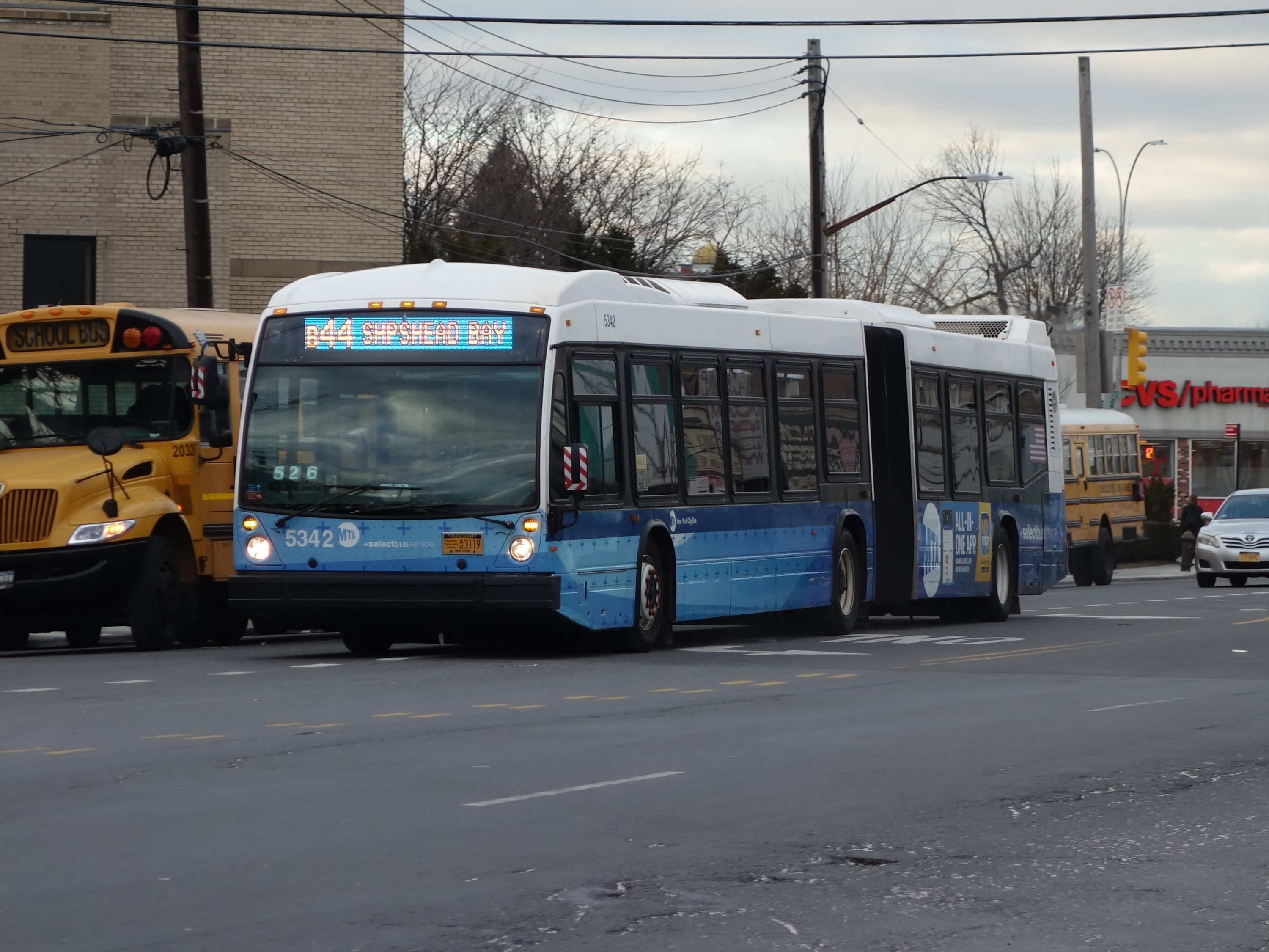 A Sheepshead Bay-bound B44 SBS bus traveling south on Nostrand Avenue at Marine Parkway in Marine Park / Midwood, Brooklyn.